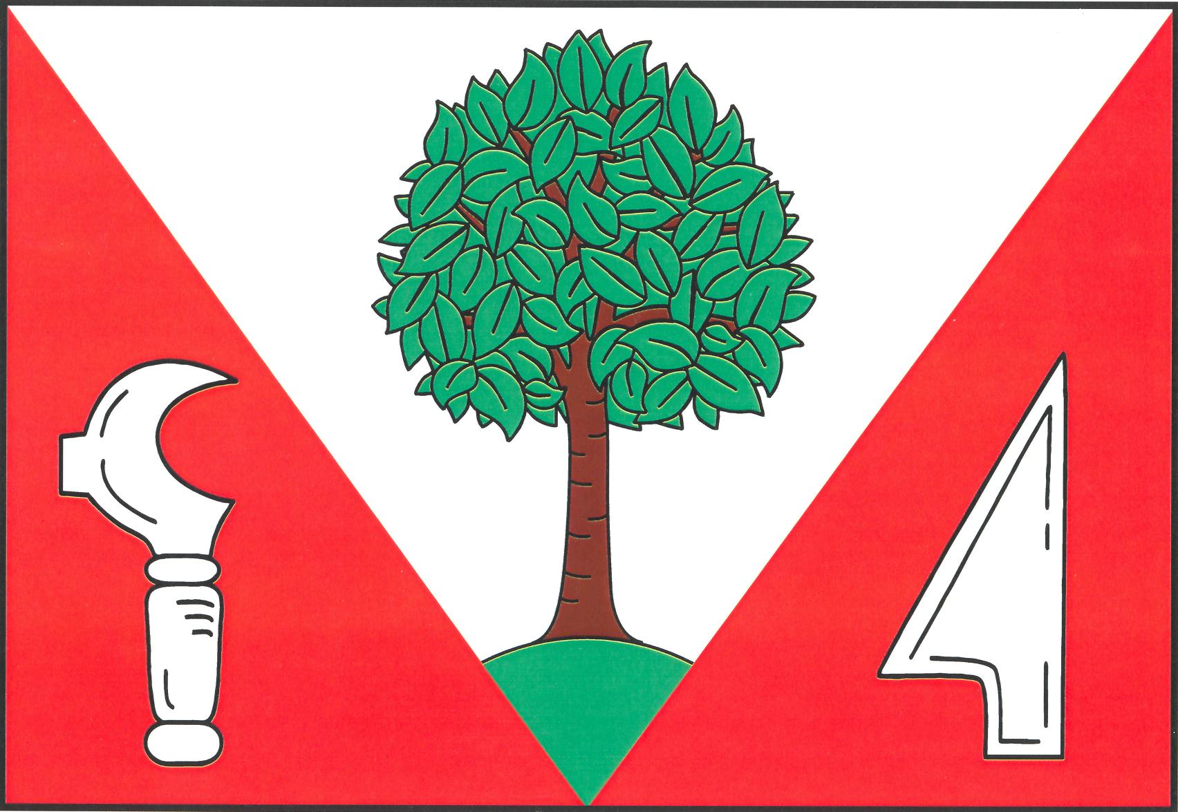 Municipal flag of Ořechov village, Brno-Country District, Czech Republic.